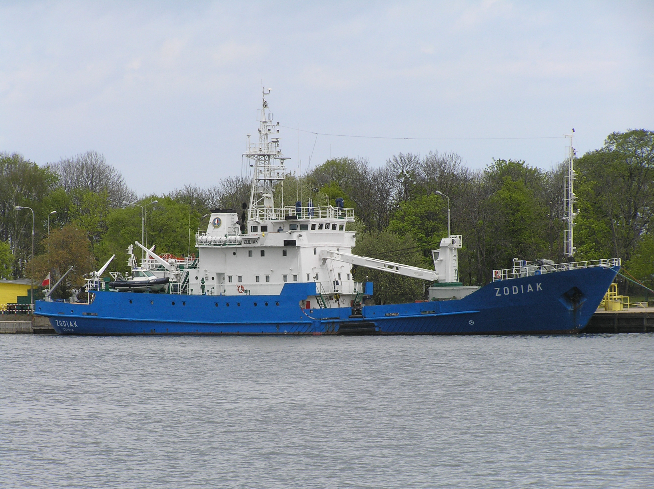 Survey vessel SV Zodiak in the Port of Gdańsk IMO Number: 8030908 MMSI Number: 261194000 Callsign: SQLX Length: 61 m Beam: 11 m